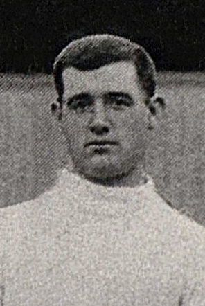 Willie McIver while with Brentford FC 1908/09